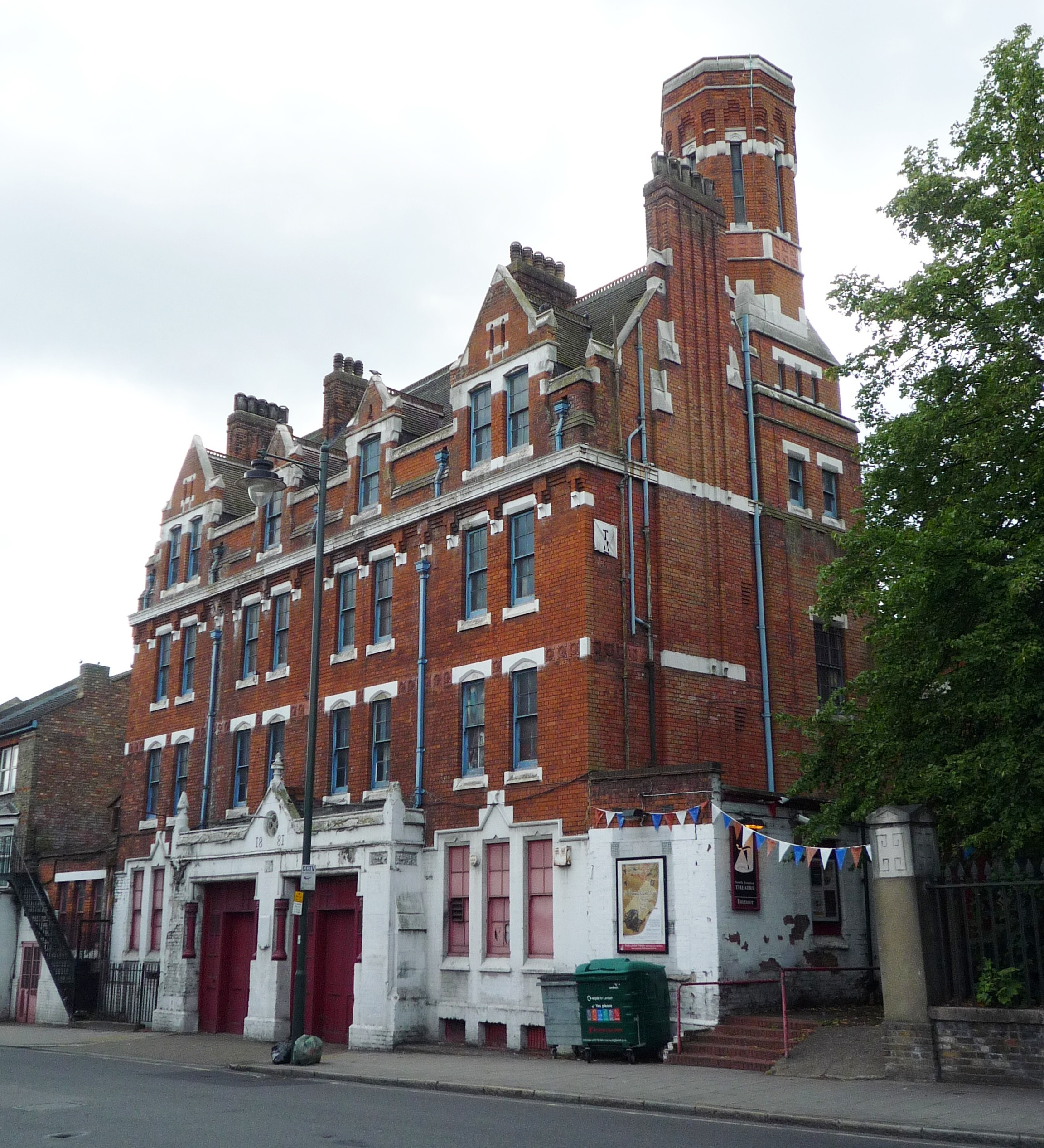 One of the best buildings of West Norwood, a flamboyant Gothic affair with a prominent octagonal watch tower. Built in 1881, probably to the designs of Robert Pearsall of the Metropolitan Board of Works Architect's Department. The central projecting porch is gabled and has finials, and once smoke had been spotted from the tower, from its doors would emerge the horse-drawn engines. The listed building description records that, "in 1913 this fire station housed a station officer, nine firemen, two coachmen, 2 pairs of horses, one horsed fire engine, one horsed escape, one manual escape and one hose cart." After 30-40 years, the building's life as a fire station drew to a close as horses were supplanted by motorised fire engines (which could not fit through the doors). Grade II listed. Since 1967, part of the building has been leased by Lambeth Council to the South London Theatre. Over the years it has suffered considerable water damage and is on English Heritage's Heritage at Risk Register, although restoration plans are afoot.